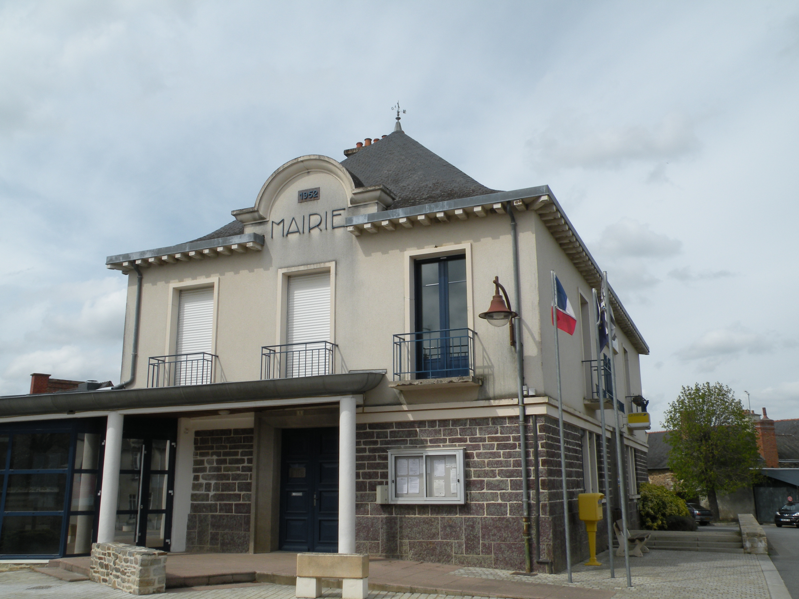 Town hall-post office of Pléchâtel.